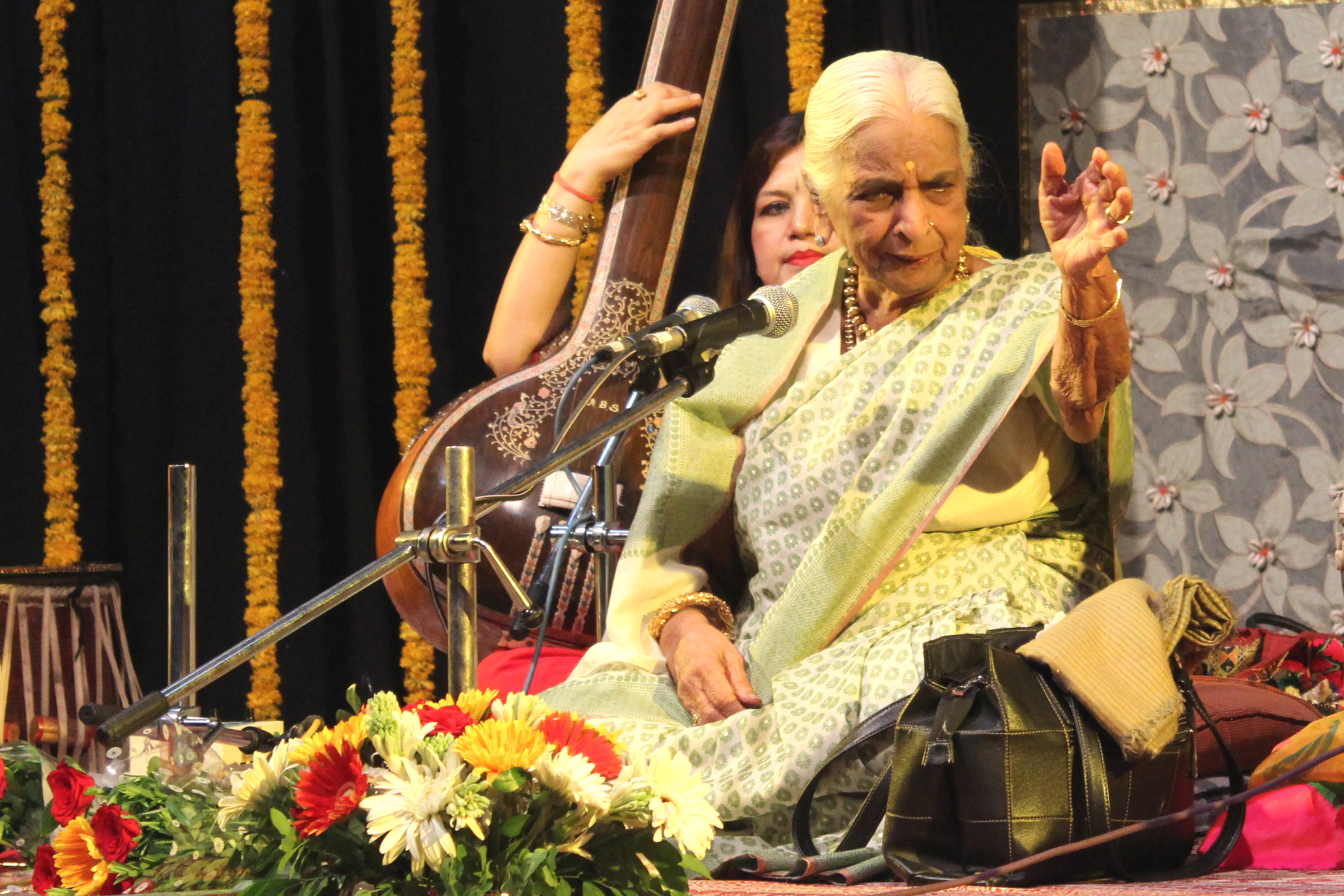 Girija Devi Performing at Bharat_Bhavan Bhopal in July 2015 in a program - Uttar Pradesh Mahotsav